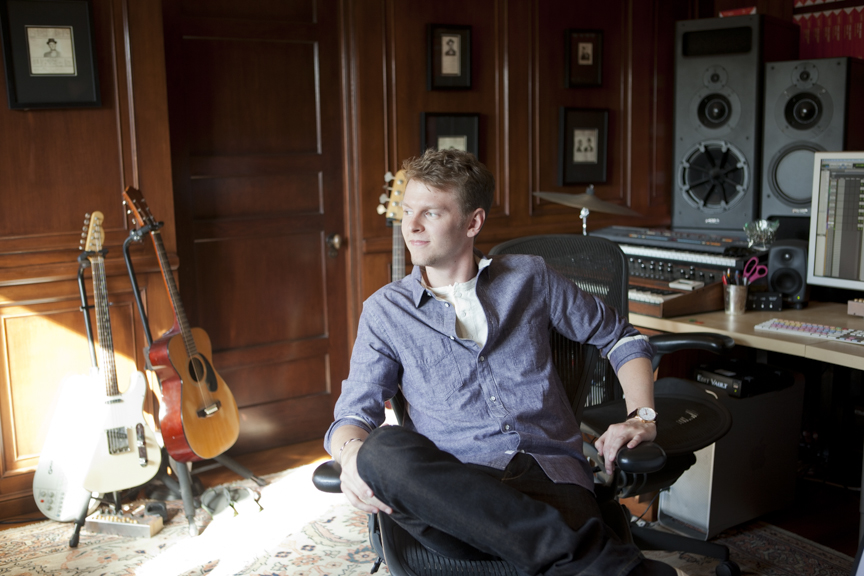 Henry "Cirkut" Walter. Photo by